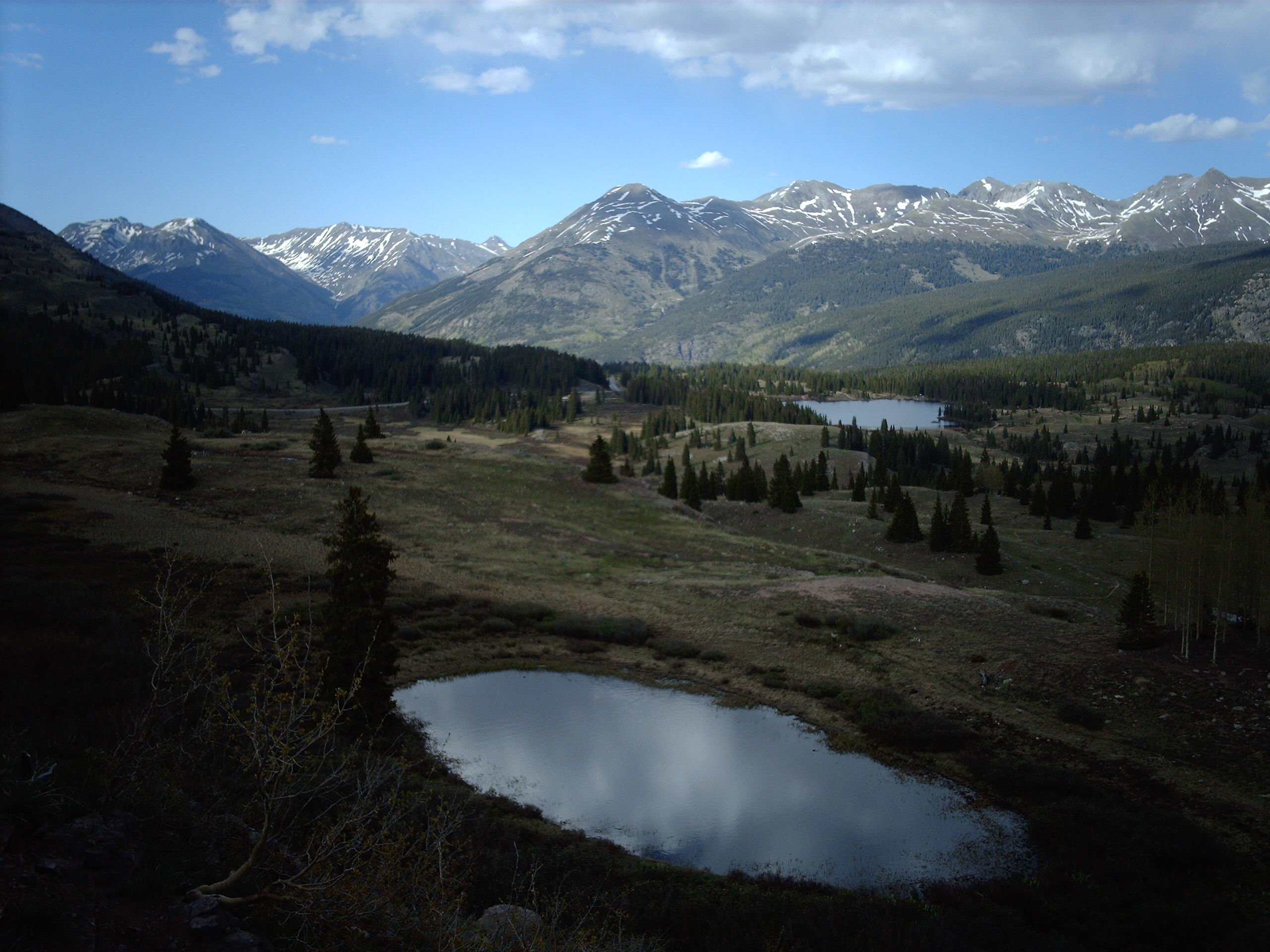 Molas Pass, Colorado, USA view. Taken by me.